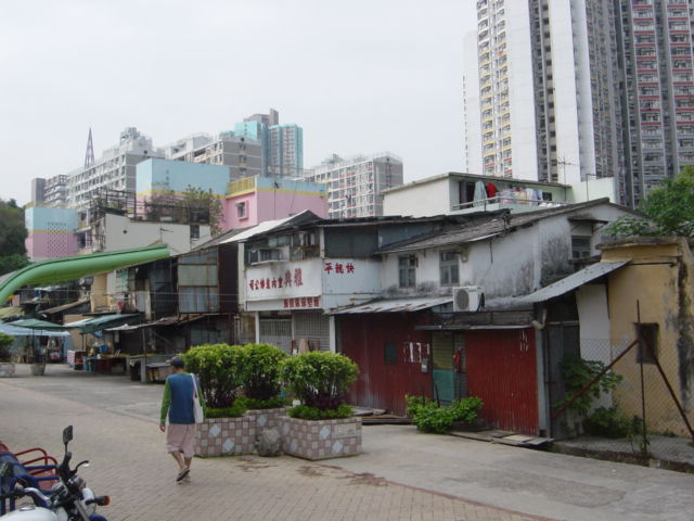 香港市區唯一仍保留的圍村－－衙前圍村，衙前圍村景象(3)。Nga Tsin Wai Tsuen, last walled villages left in the urban built-up areas of Hong Kong.